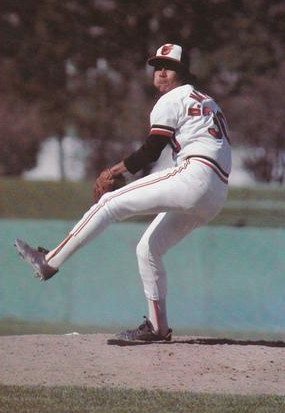 Professional baseball player Denny Martinez